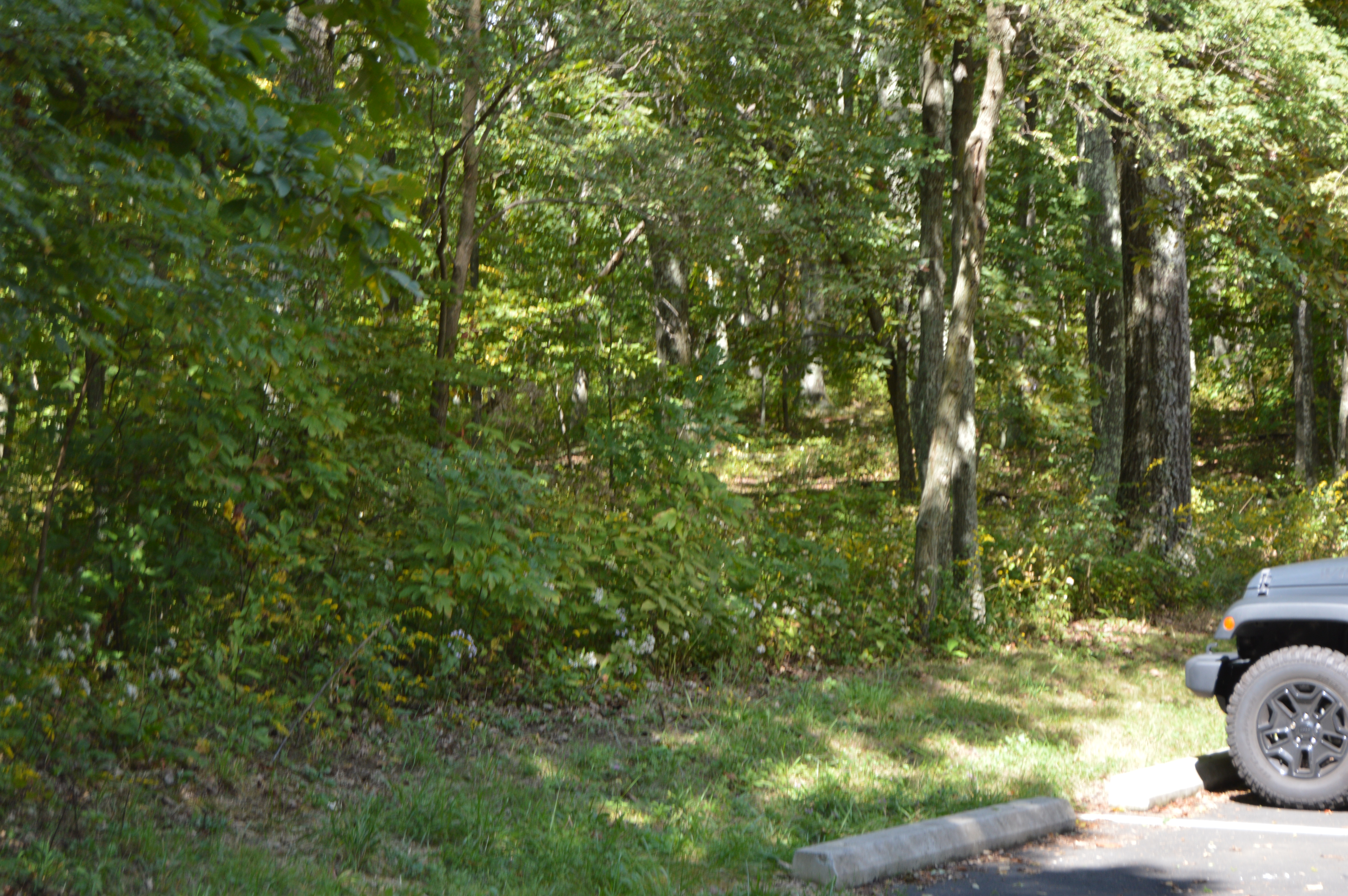 Land at the edge of the trailhead parking lot at Compton Gap, located along Skyline Drive in the Warren County section of Shenandoah National Park in the U.S. state of Virginia. This is an important archaeological site, the Compton Gap Site; it is listed on the National Register of Historic Places.